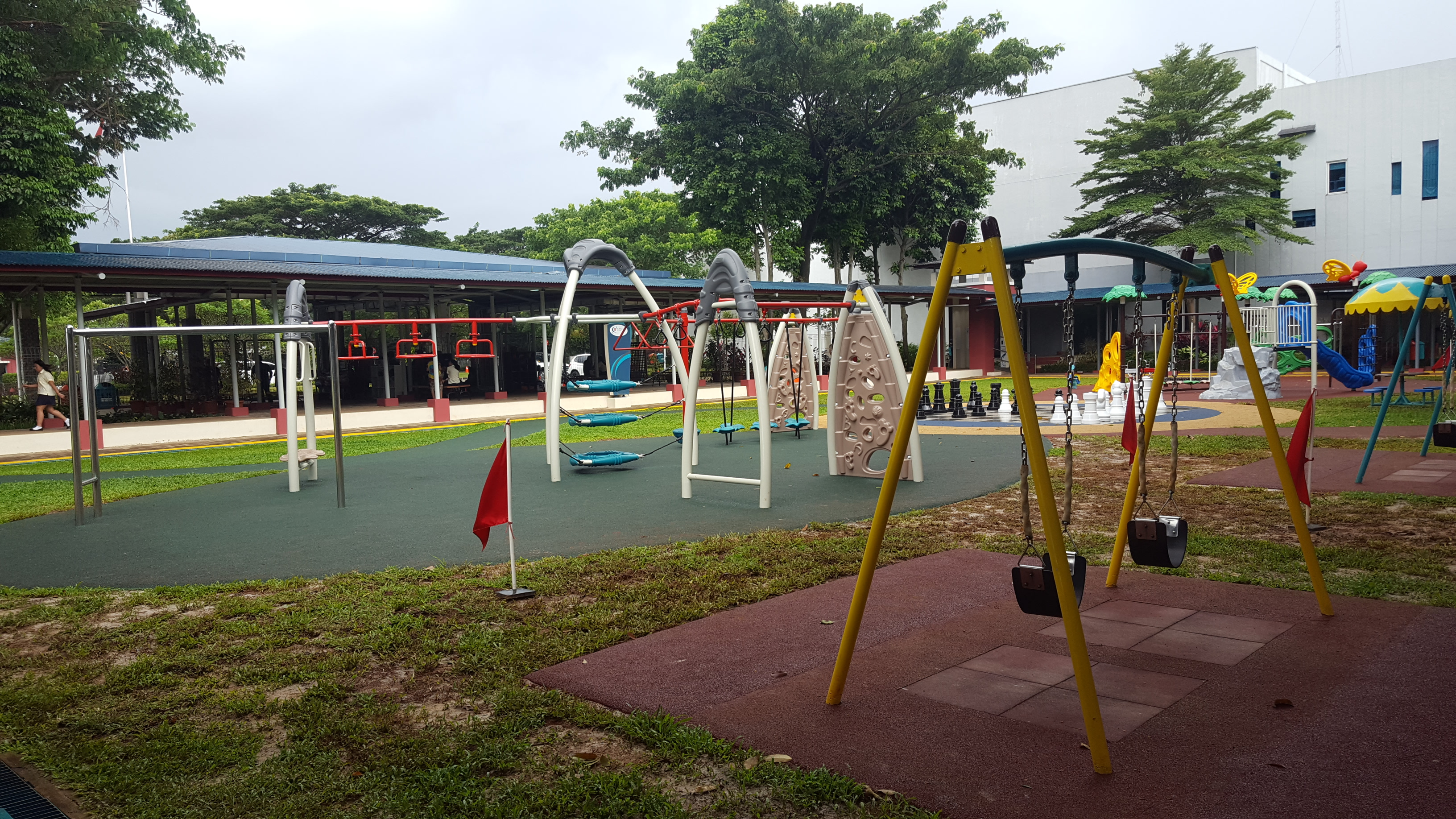 Playground in GJS